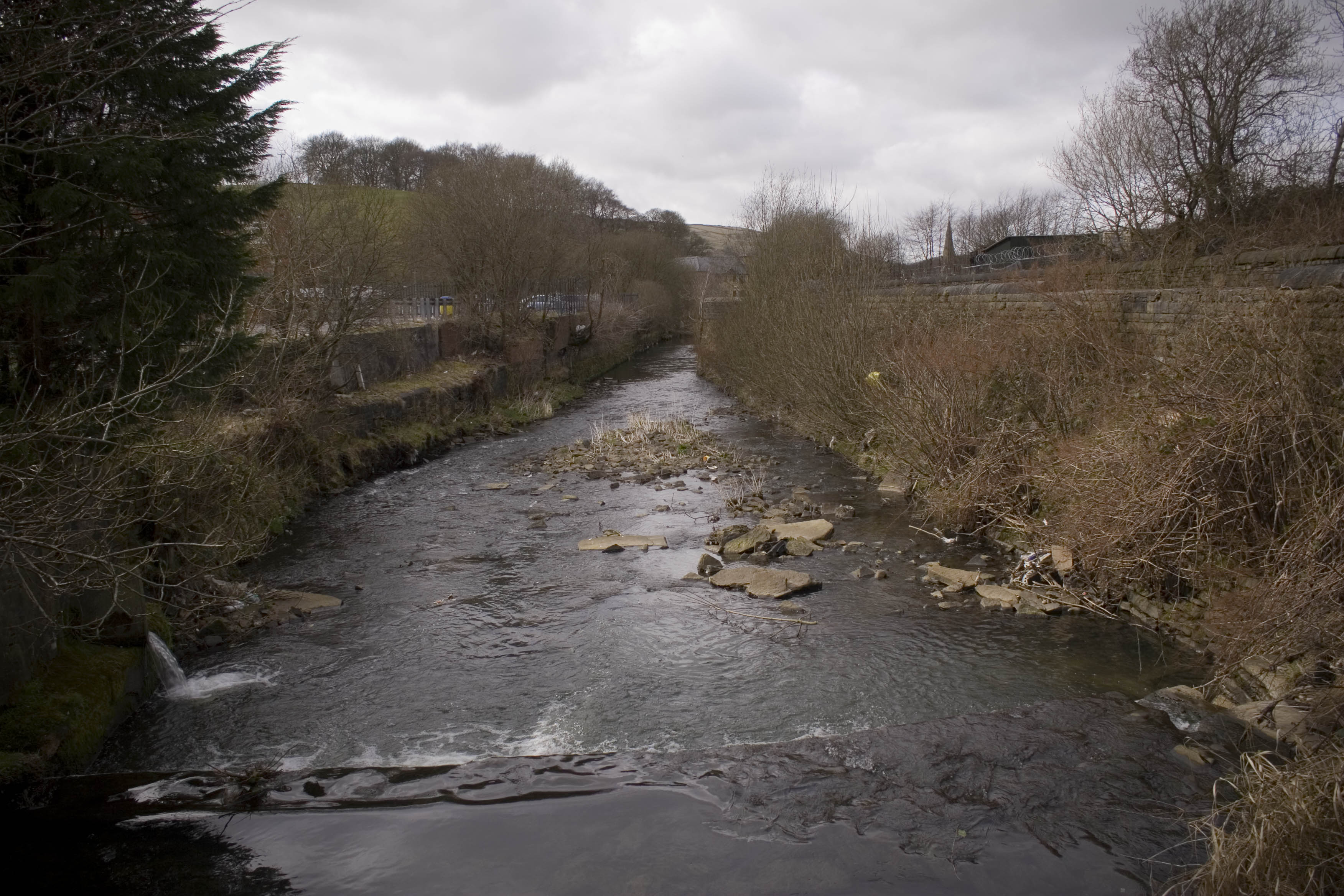 The River Irwell flows west through Waterfoot, in Rossendale. 53.691448,-2.249378